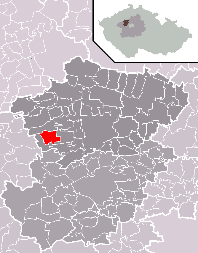 Location of Malíkovice municipality within Kladno District and administrative area of Slaný as a Municipality with Extended Competence.